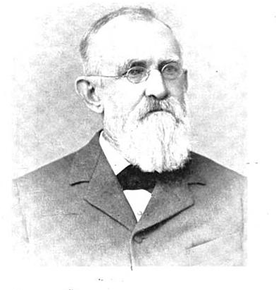 Daniel Montgomery Boyd, a 19th-century Pennsylvanian industrialist